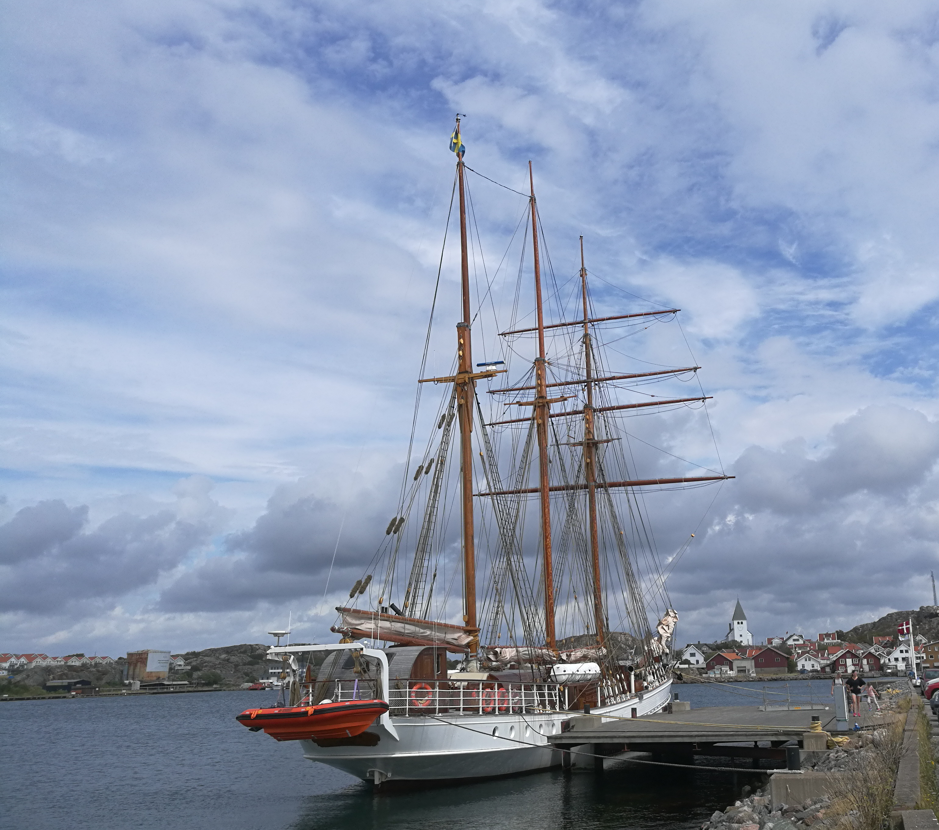 A picture of the schooner "Lady Ellen" in home port of Skärhamn, Tjörn in Sweden. Information in swedish